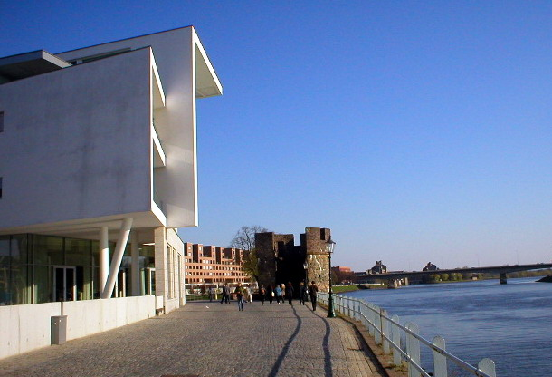 Beluga restaurant (left) and a medieval tower on the right bank of the river Meuse in Maastricht, Netherlands